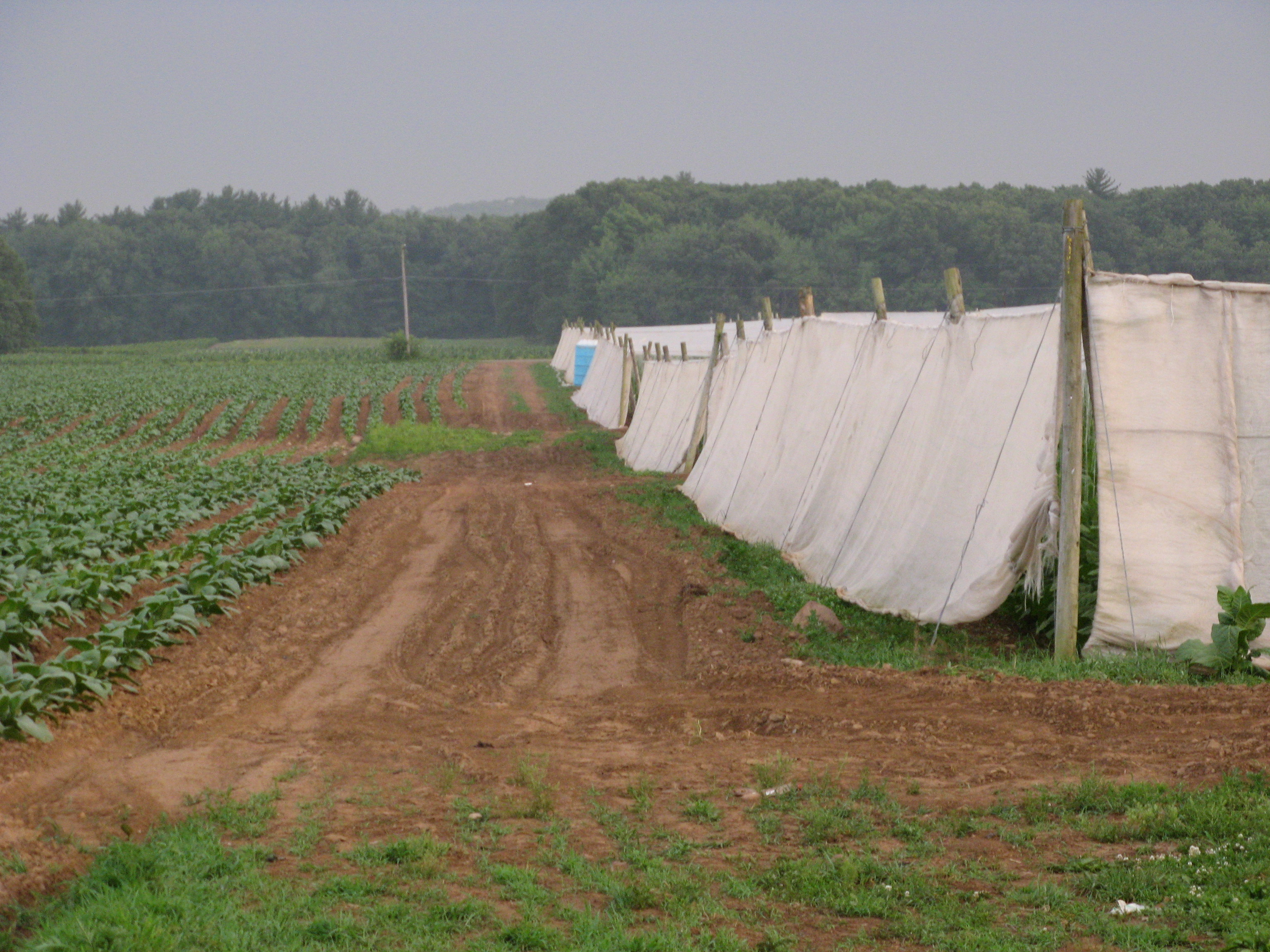 Tobacco field in East Windsor, Connecticut, United States. Photo taken by myself with my Canon Powershot A710IS